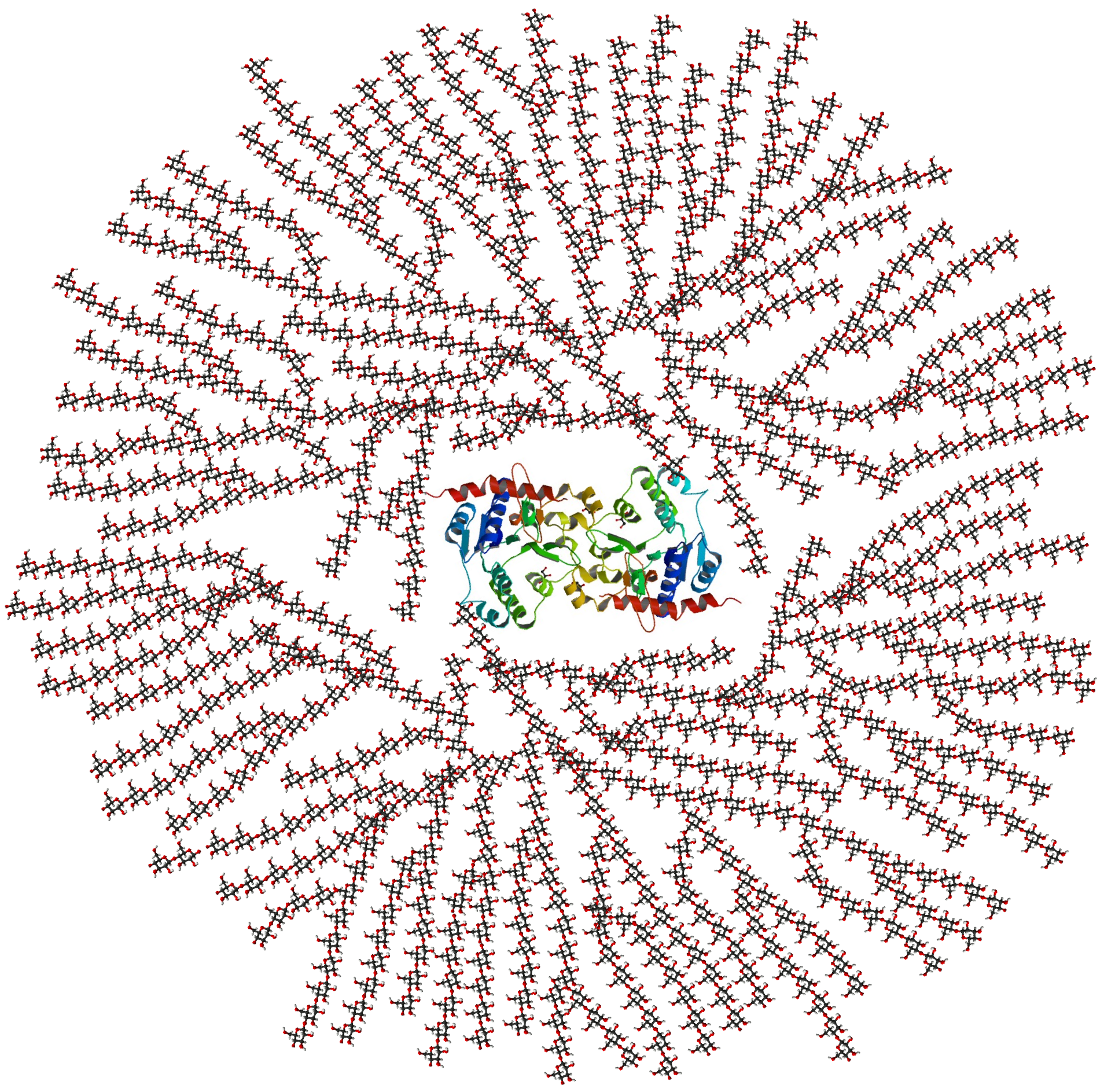 2-D cross-sectional view of glycogen: A core protein of glycogenin is surrounded by branches of glucose units. The entire globular complex may contain approximately 30.000 glucose units. (Description reference: Page 12 in: Exercise physiology: energy, nutrition, and human performance By William D. McArdle, Frank I. Katch, Victor L. Katch Edition: 6, illustrated Published by Lippincott Williams & Wilkins, 2006 ISBN 0781749905, 9780781749909, 1068 pages)